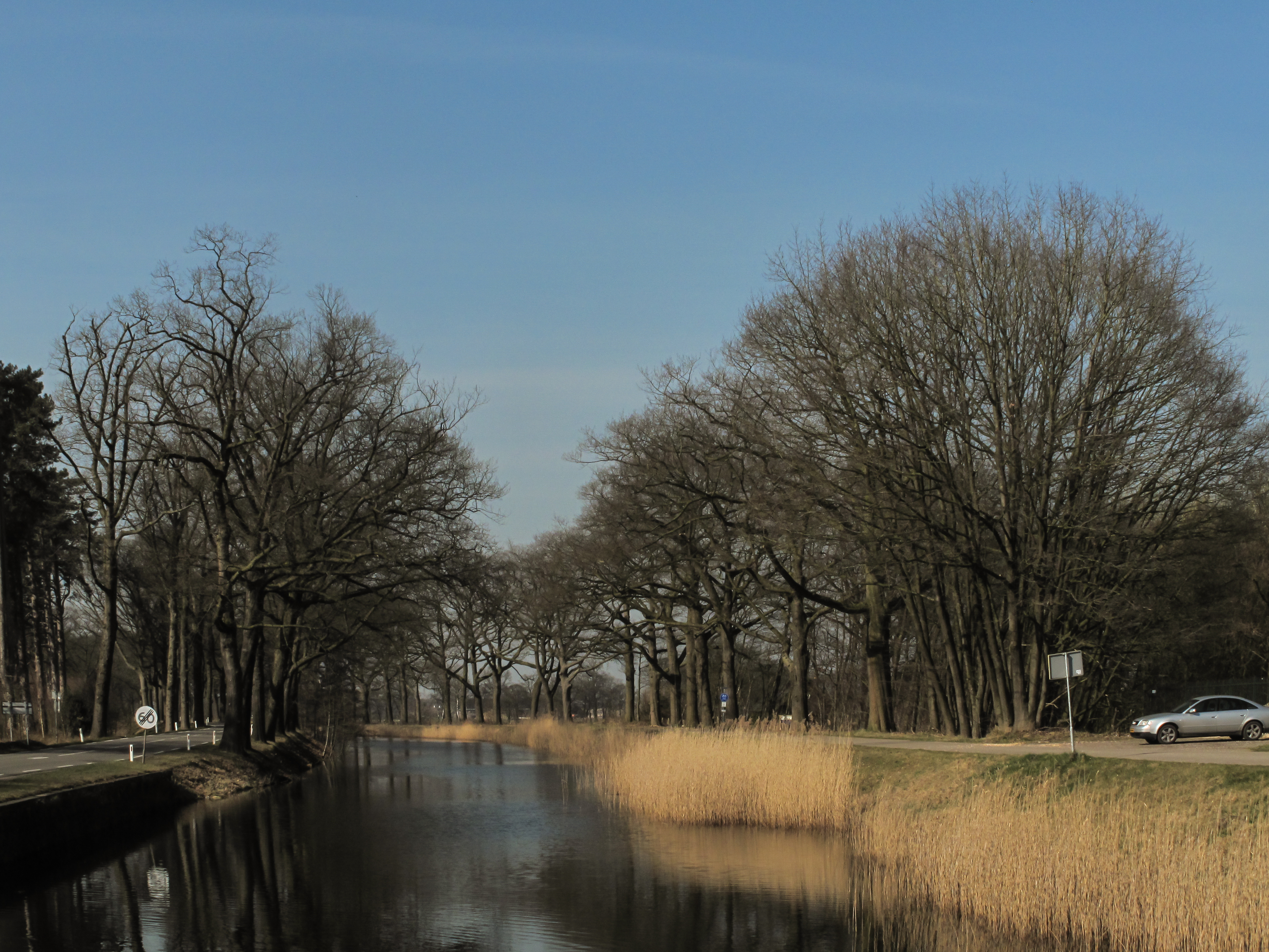 Eerbeek, canal (Apeldoornskanaal) from bridge (de Eerbeeksebrug)